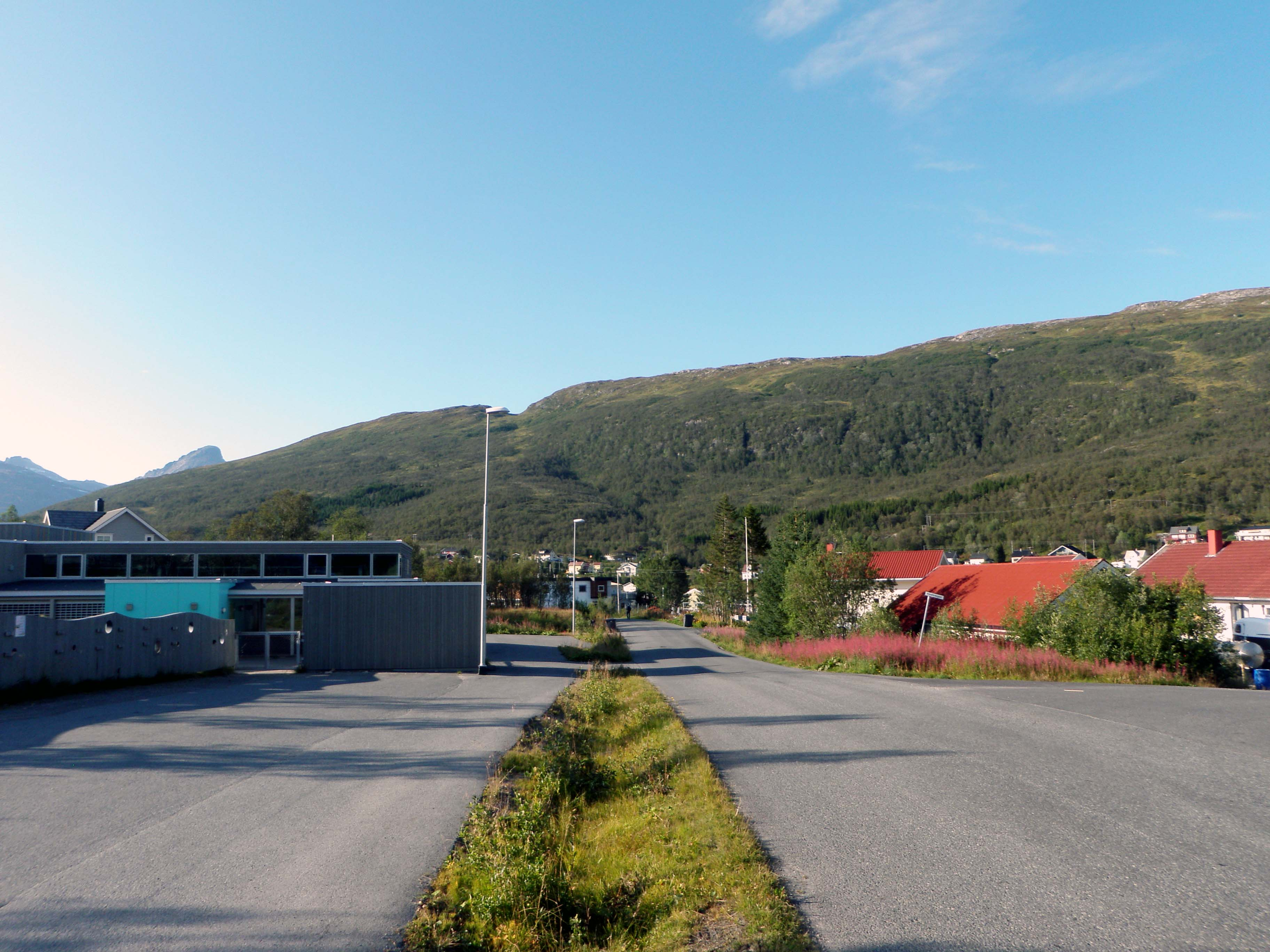 The village of Kjosen, in Tromsø, Troms, Norway. Kjosen kindergarten can be seen on the left.